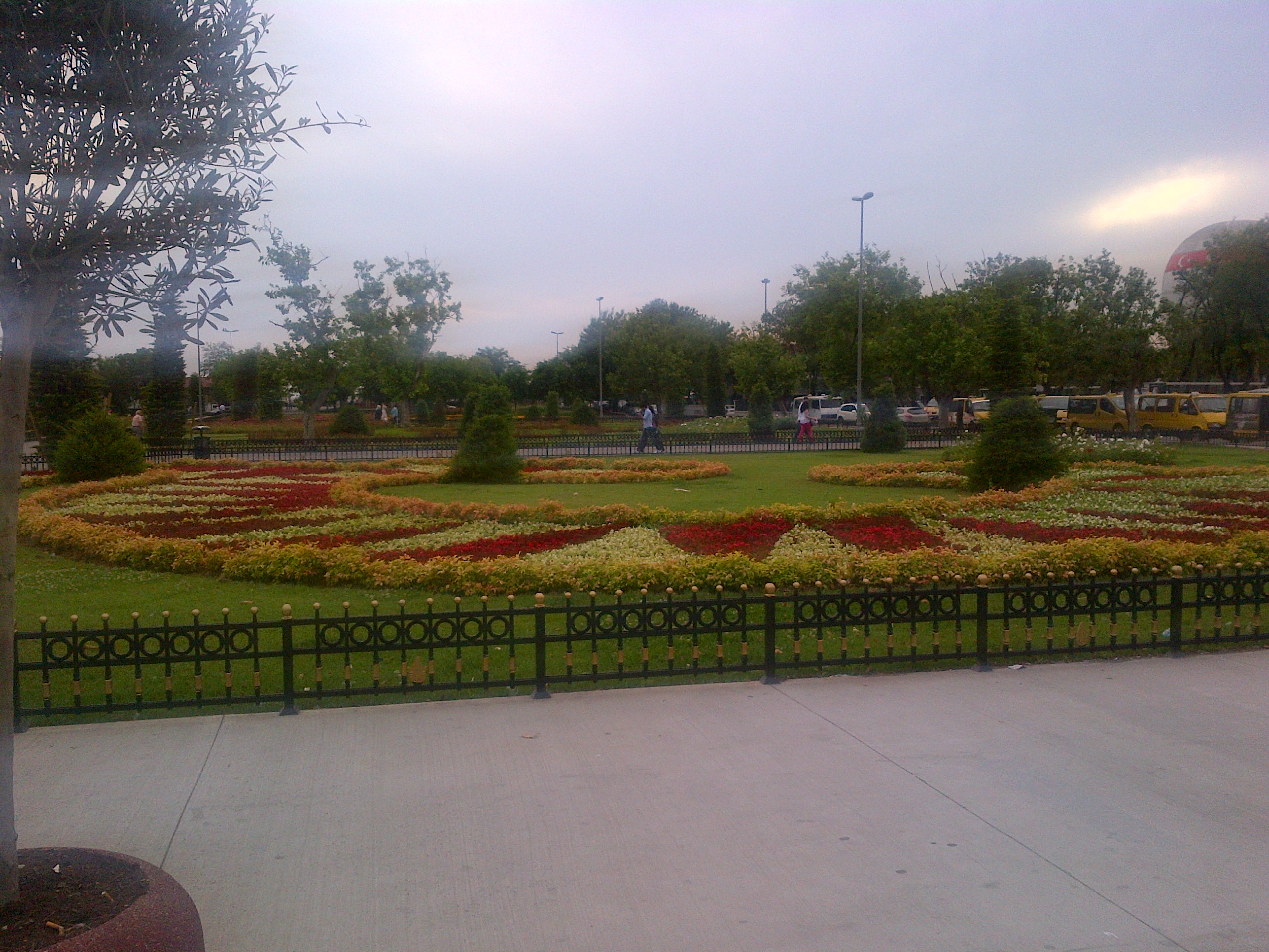 Park in Kadıköy, where it used to be an urban bus terminal several years ago.